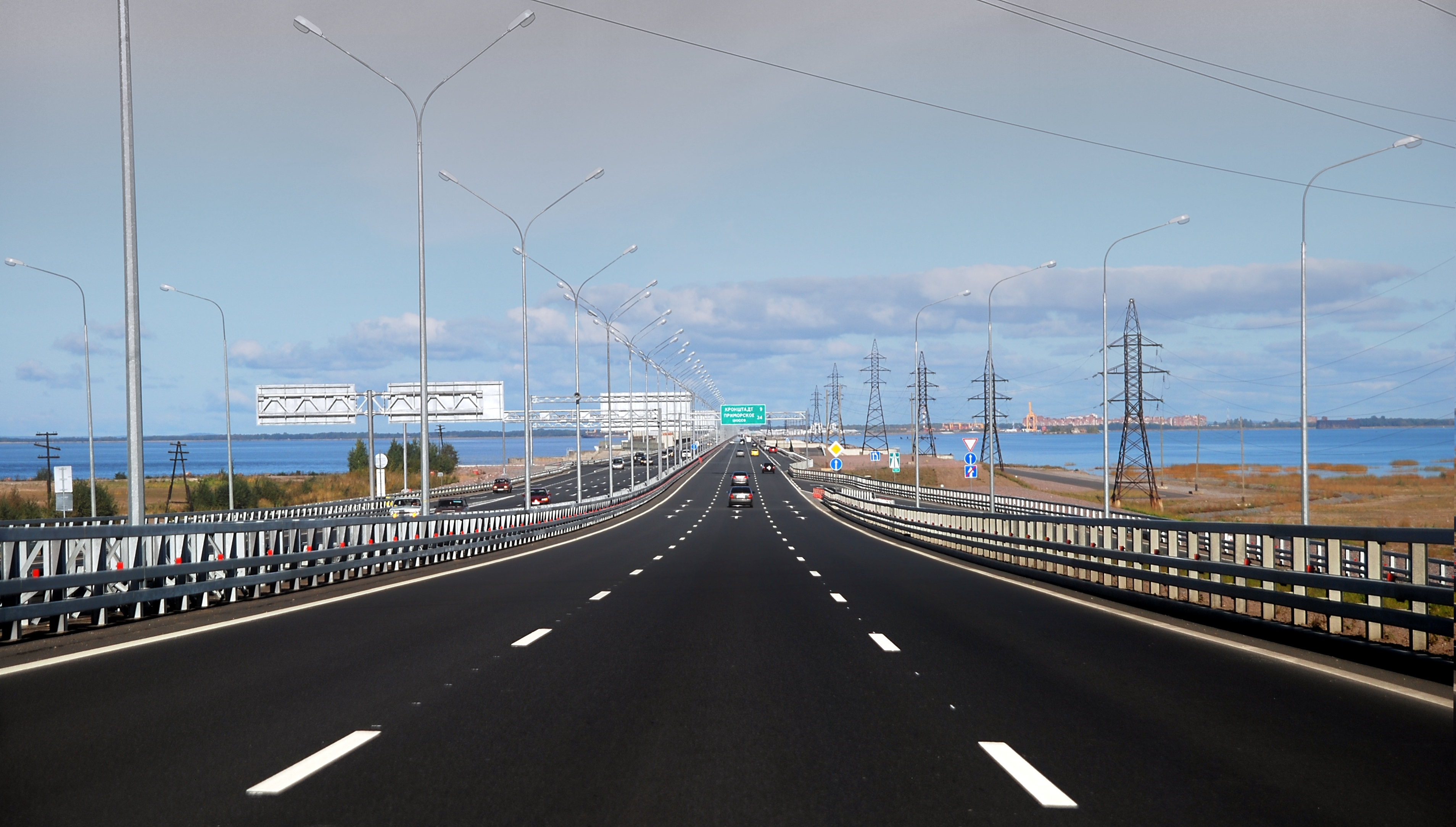 Saint Petersburg dam